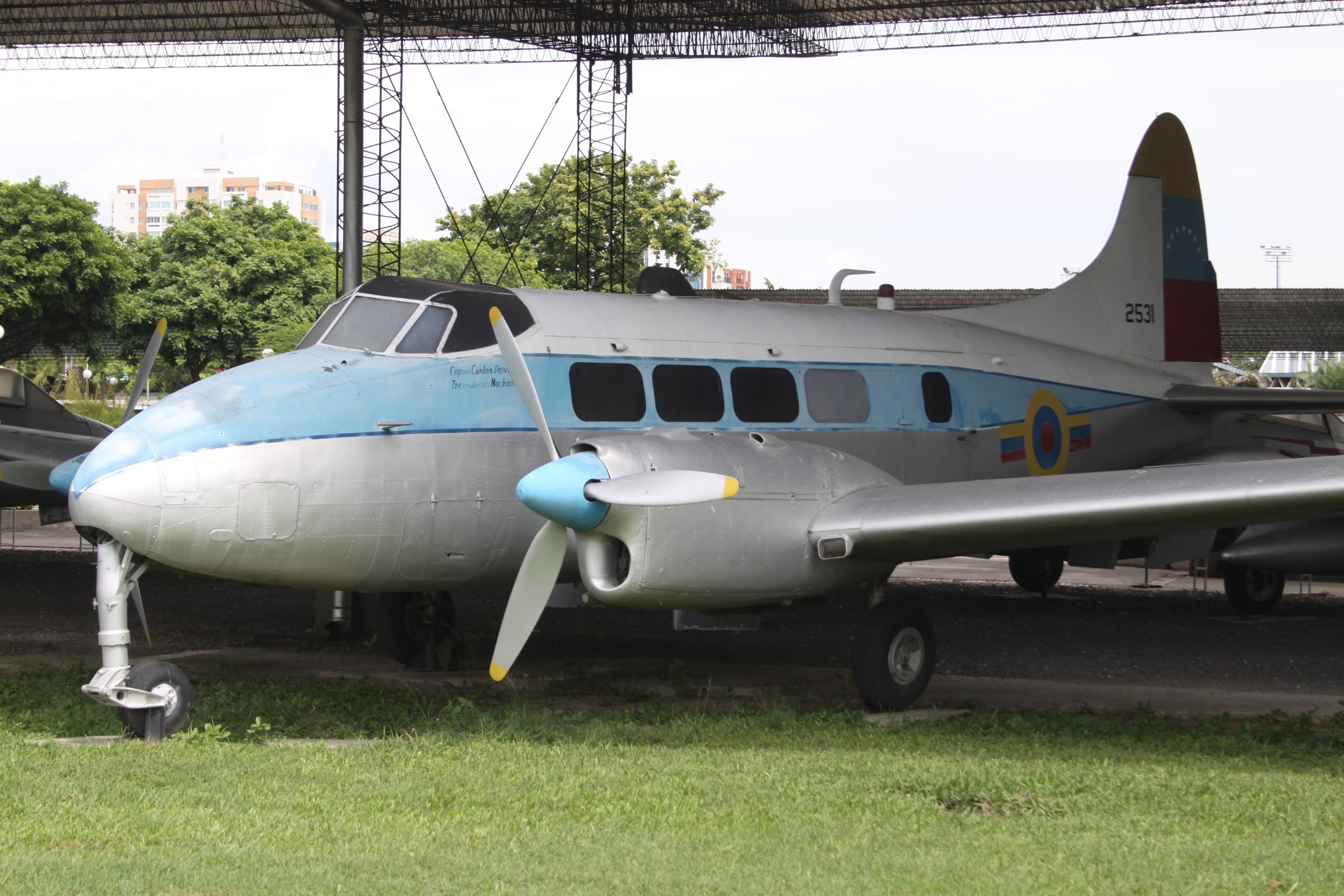 At Museo Aeronáutico de Maracay